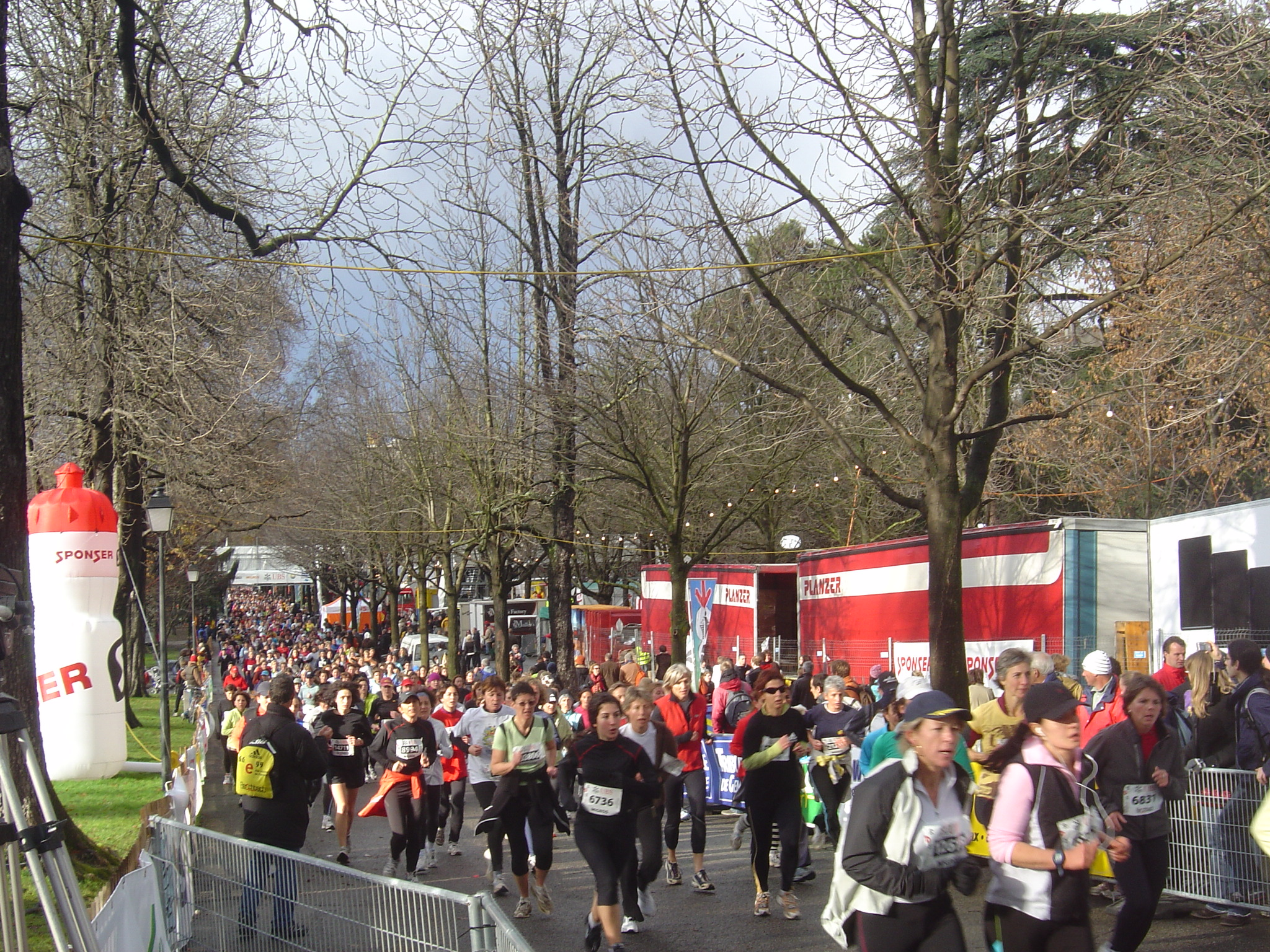 Escalade race 2008